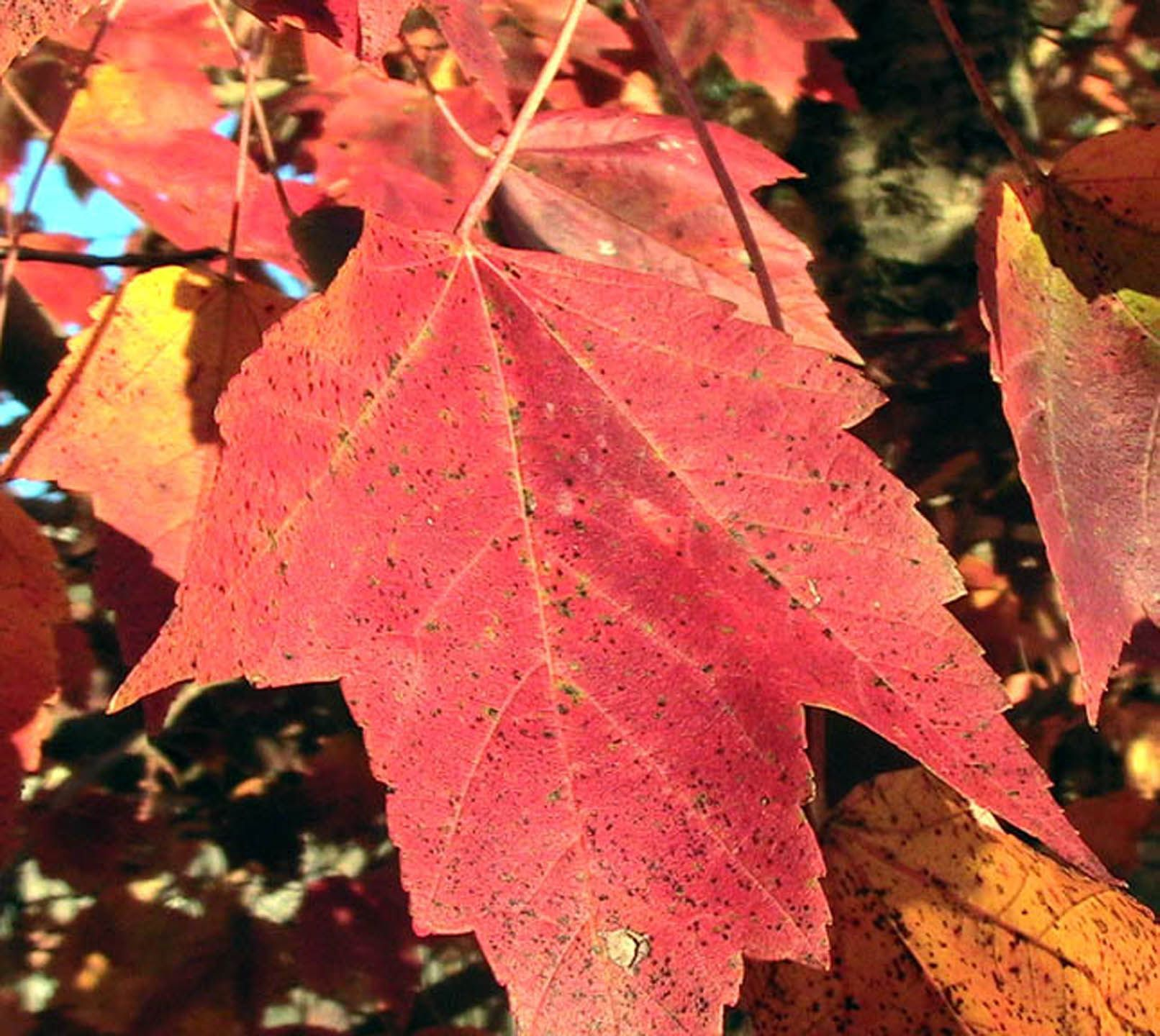 Image title: Red maple leaf in autumn Image from Public domain images website